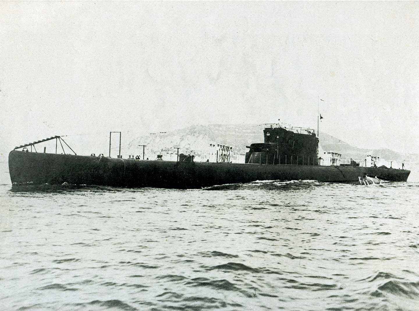 Italian Submarine Domenico Millelire